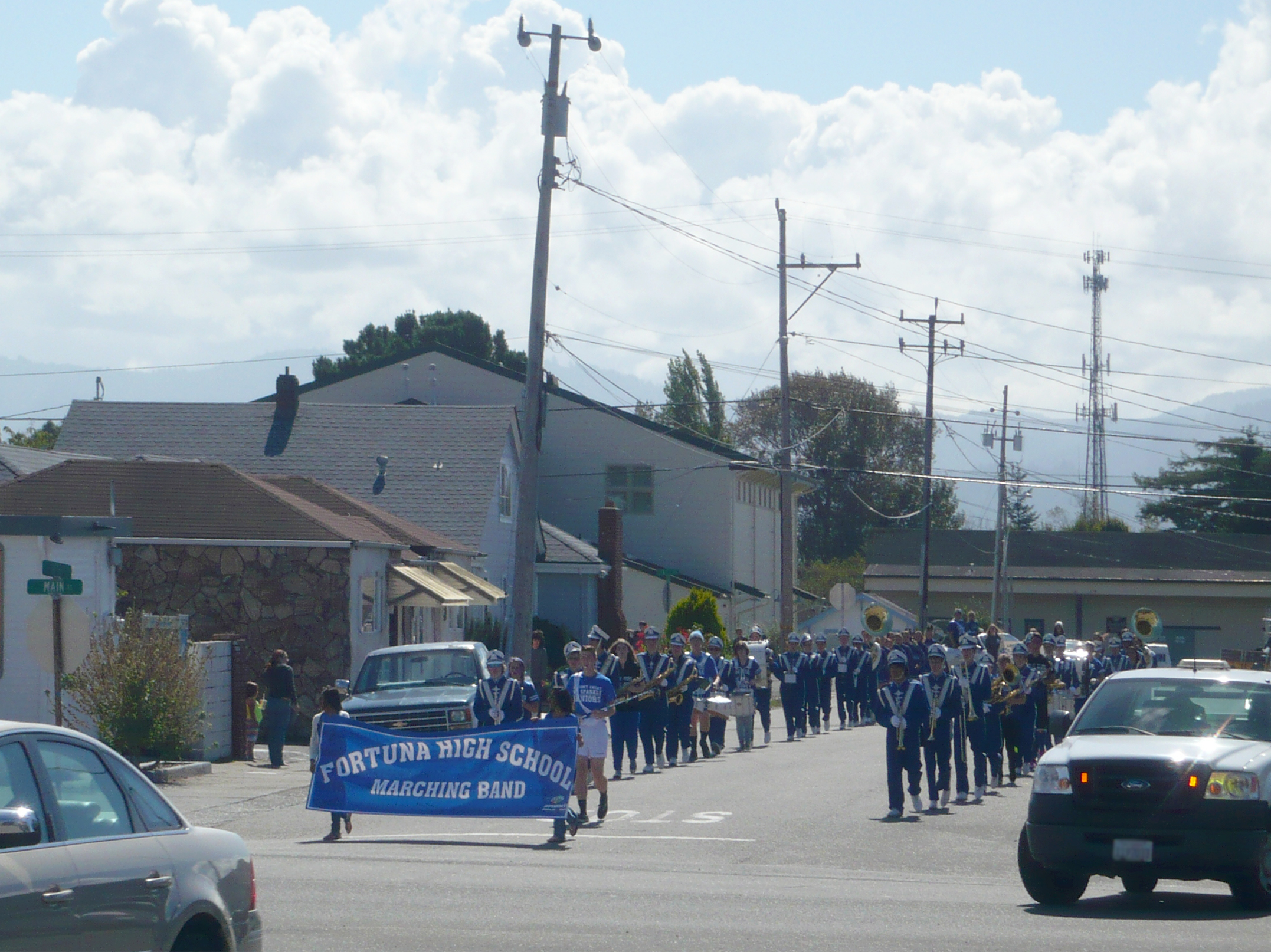 Fortuna High Marching Band - Fortuna Union High School District "Huskies" at their 2014 homecoming parade in Fortuna, California.